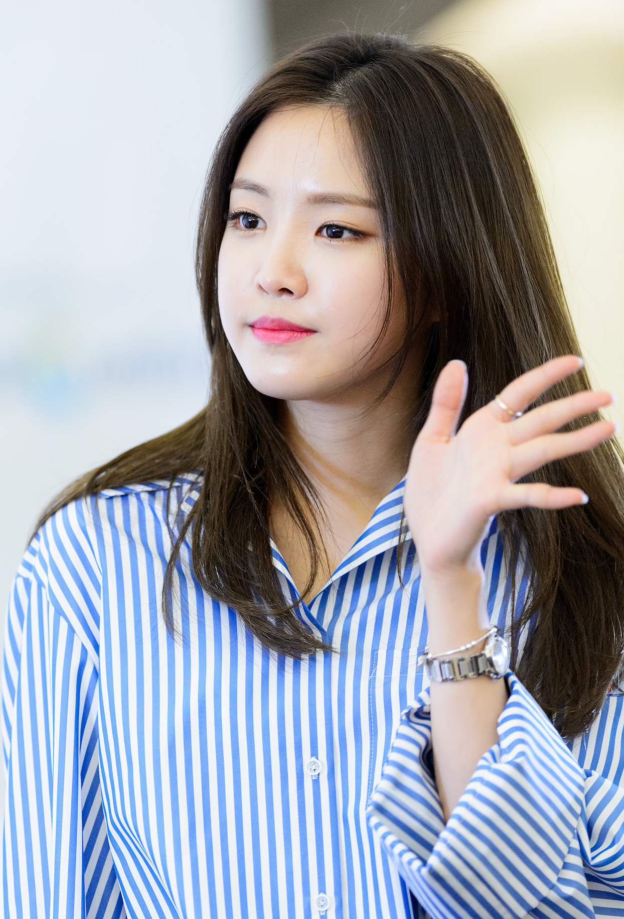 Son Na-eun at Duoback fansigning event, 5 March 2016